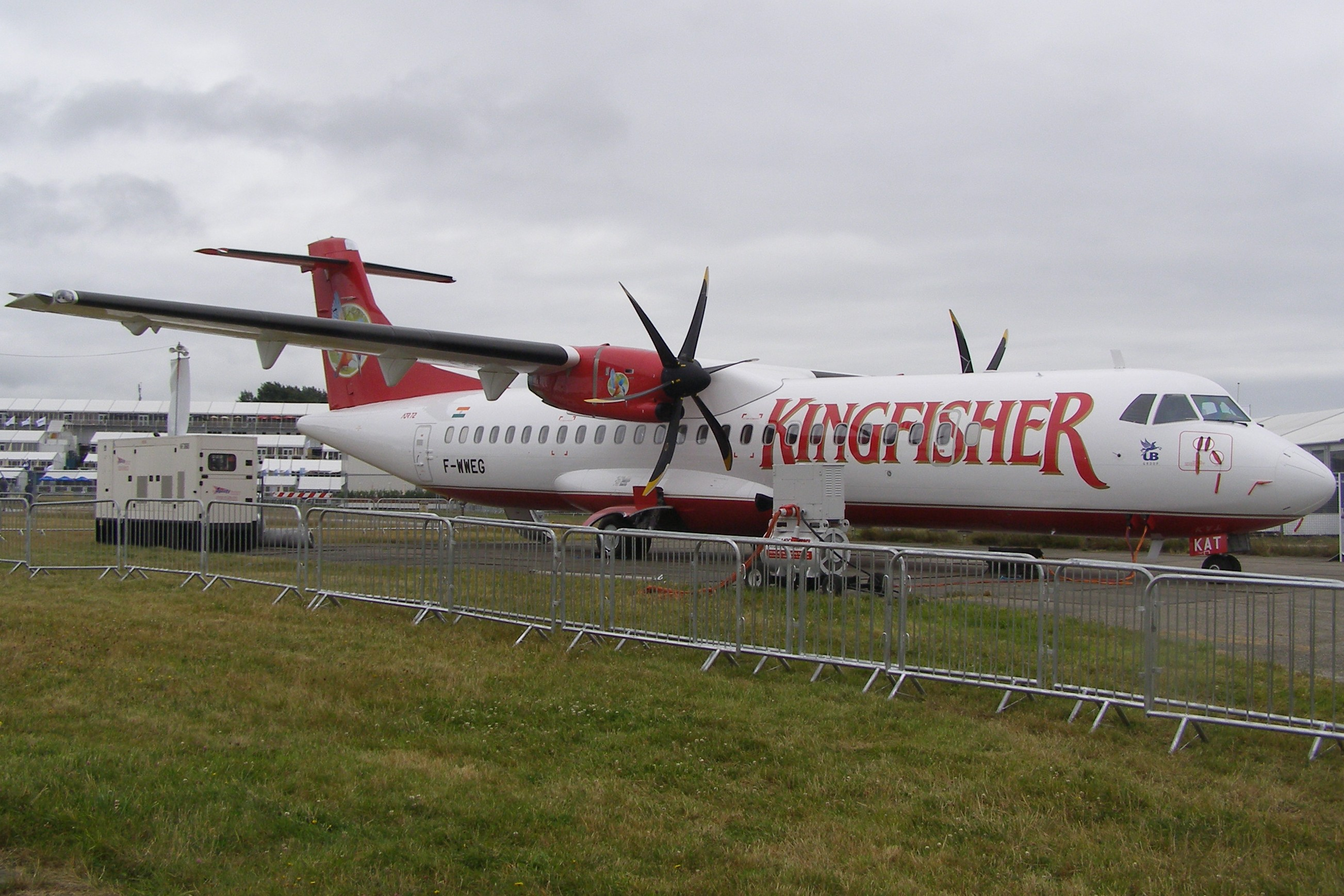 Kingfisher Airlines ATR72 (with French test registration F-WWEG, to be VT-KAT) at Farnborough Airshow 2008